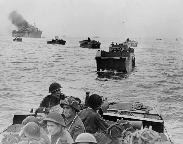 Infantrymen of The Royal Winnipeg Rifles in Landing Craft Assault (LCAs) en route to land at Courseulles-sur-Mer, France, 6 June 1944.